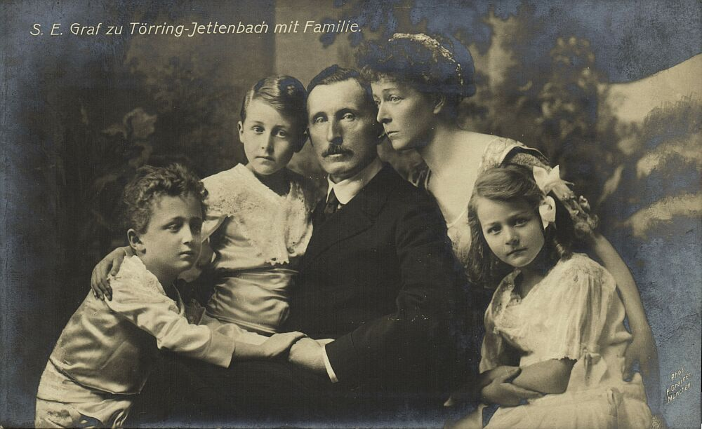 Duchess Sophie Adelheid in Bavaria with family: her spouse (Hans Veit, Count of Toerring-Jettenbach) and their children (Carl Theodor, Antonia and Hans Heribert).